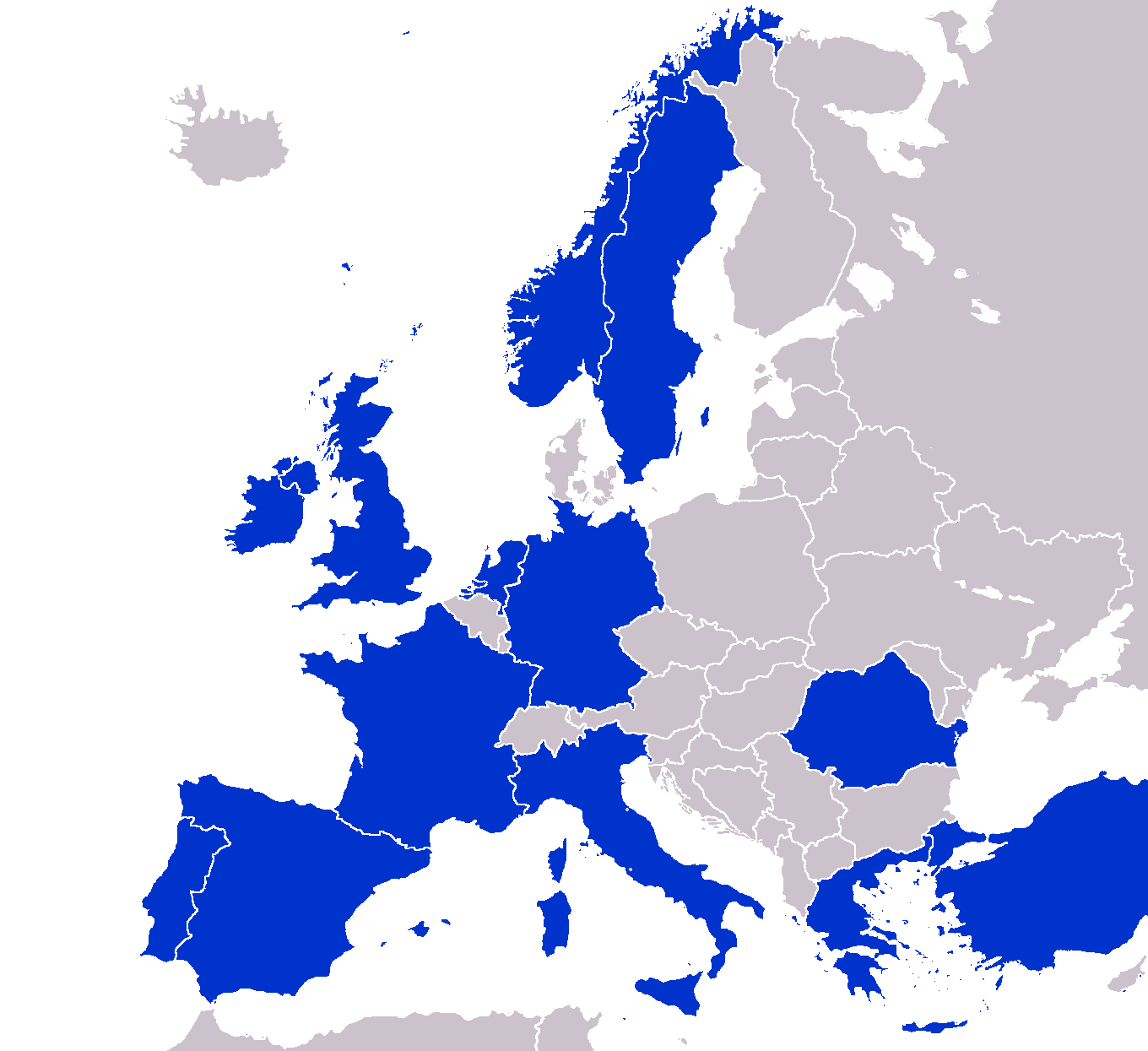 Member states of the EMSO